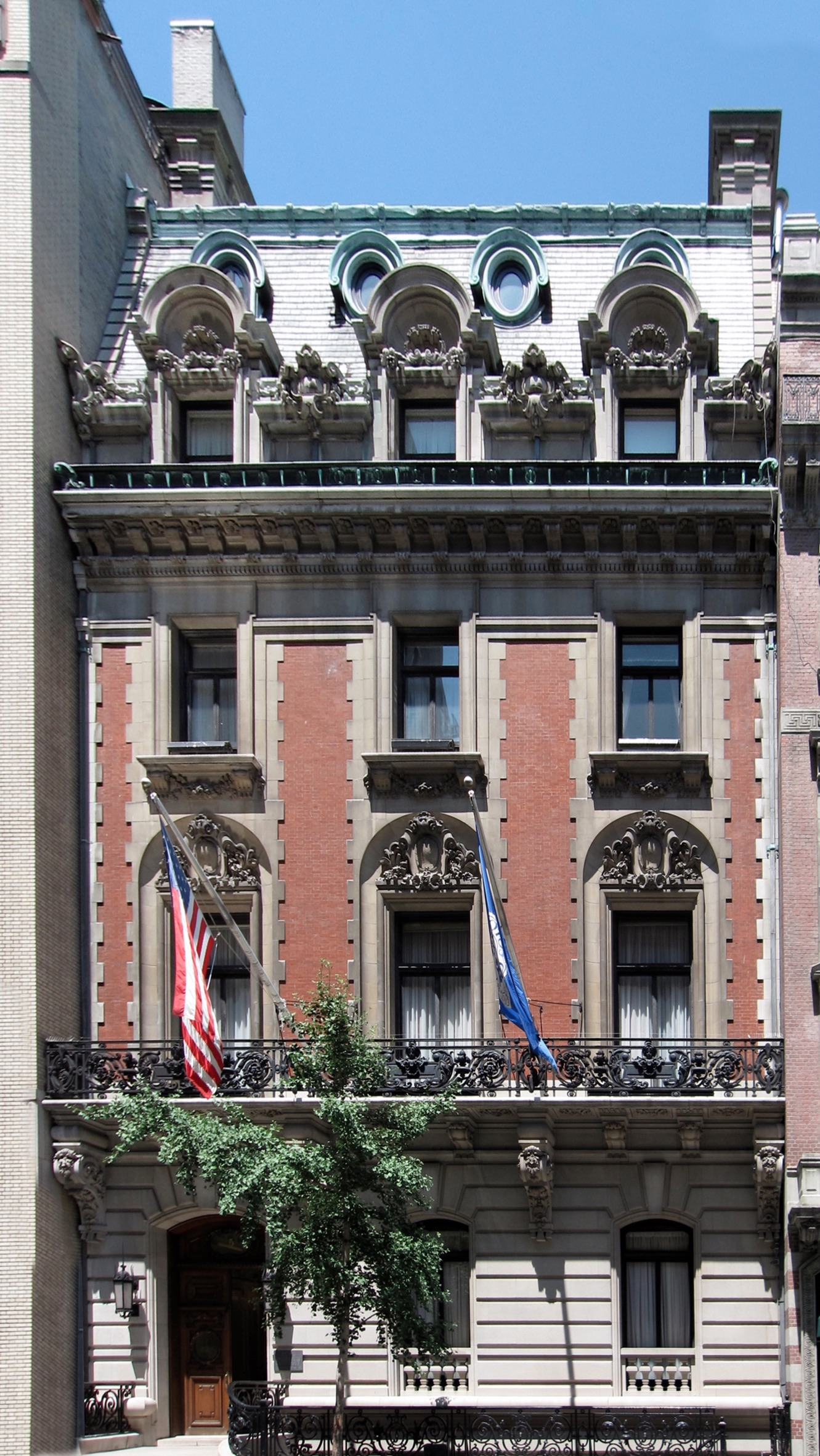 5 East 66th Street was designed in French Renaissance style by Richard Howland Hunt in 1900 as the residence of William Jay Schieffelin, this mansion became in 1947 the home of the Lotos Club, founded in 1870 and devoted to literature and the arts. A Landmark of New York plaque was erected in 1960 by the New York Community Trust.